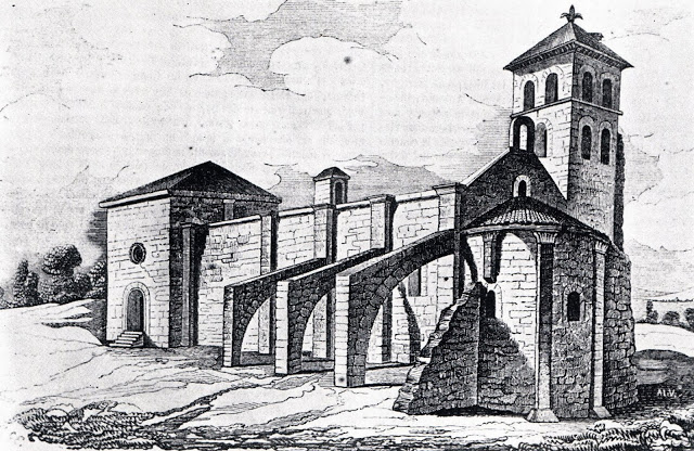 Exterior of the Church of Santa María del Temple (Saint Mary of the Templars) in Ceinos de Campos, Castile and León, Spain. Drawing published in the old Seminario Pintoresco Español.